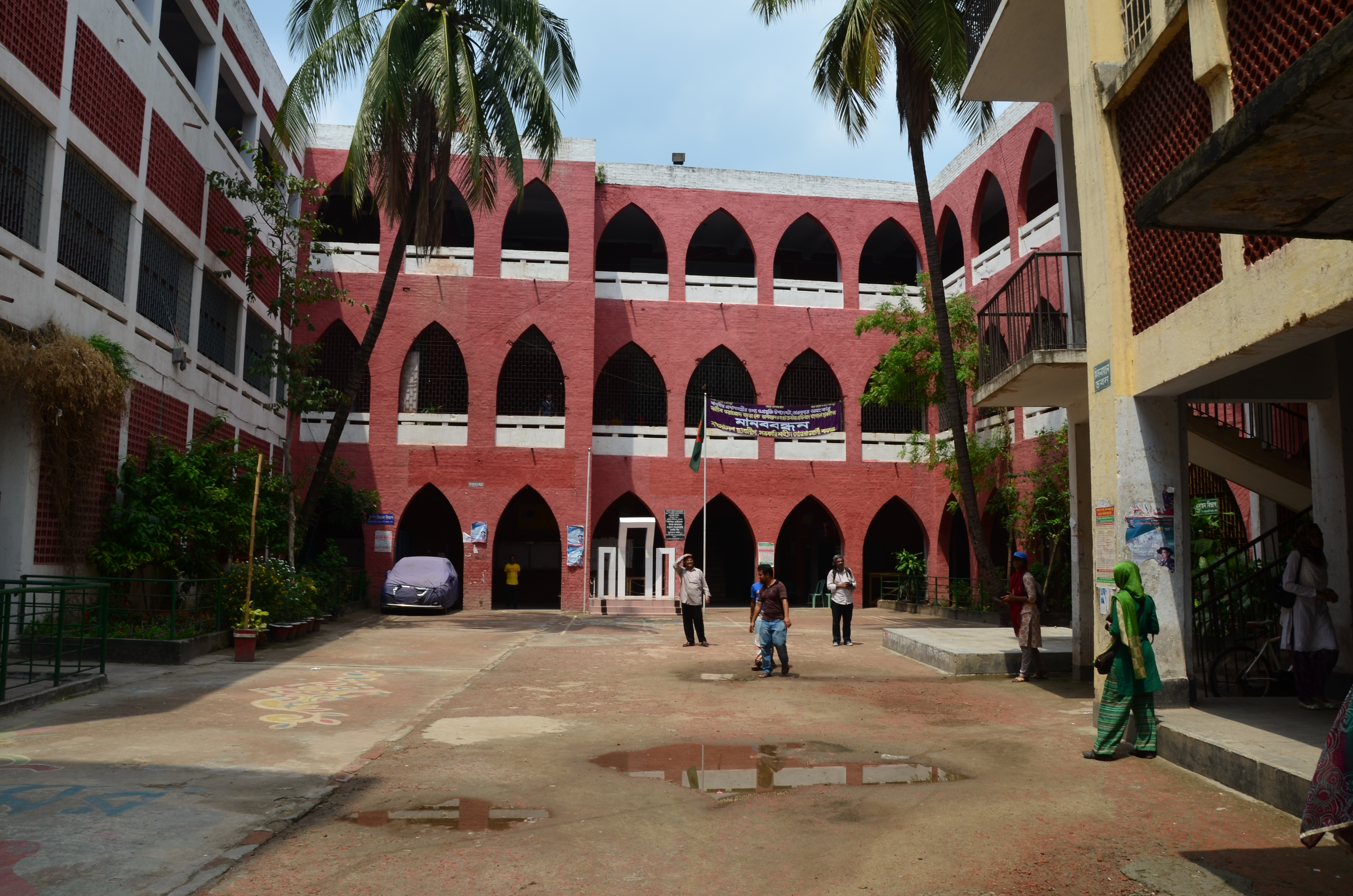 Govt. Shaheed Suhrawardi College